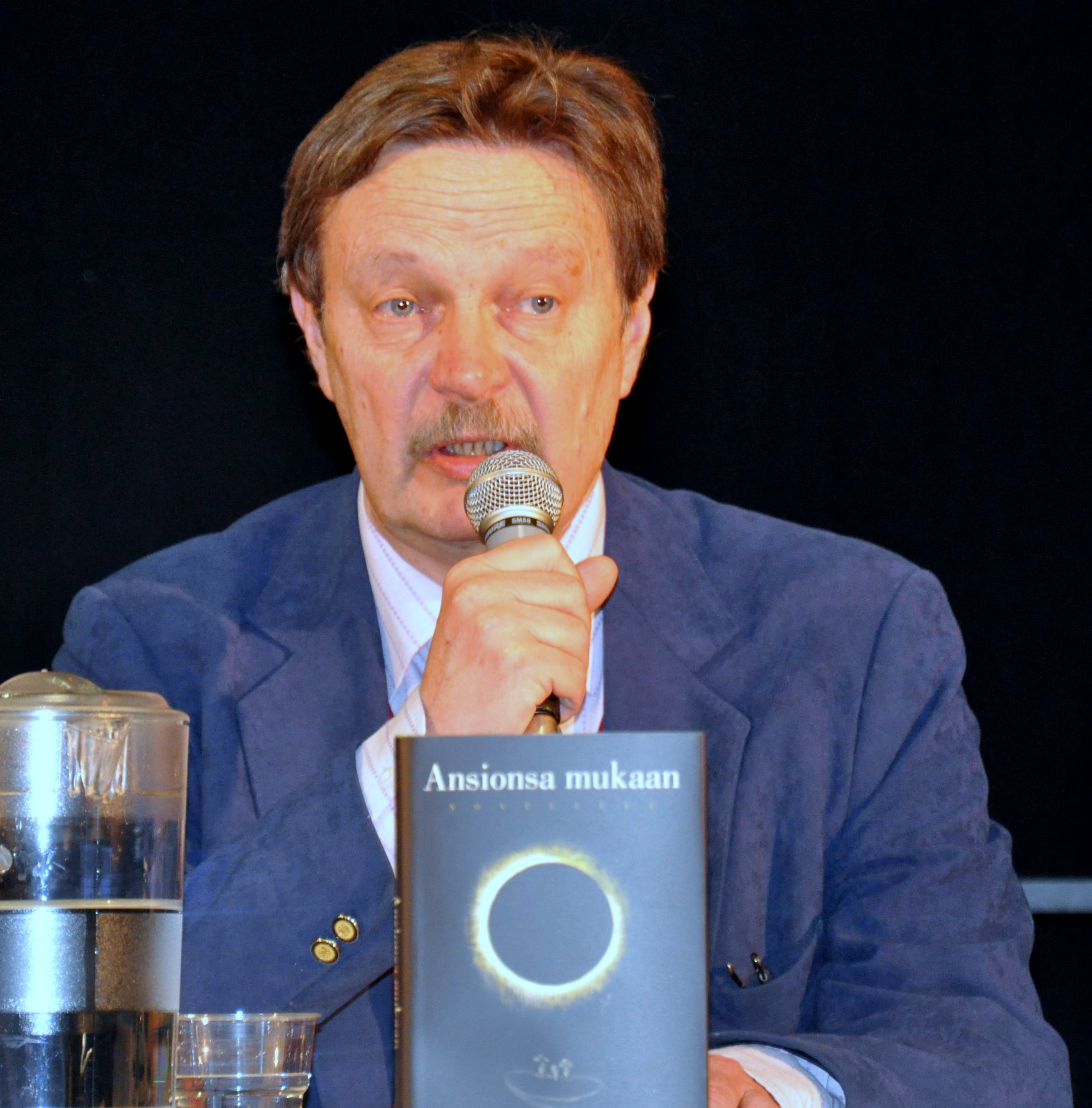 Finnish writer Hannu Niklander speaking at the Jyväskylä Book Fair 2009.